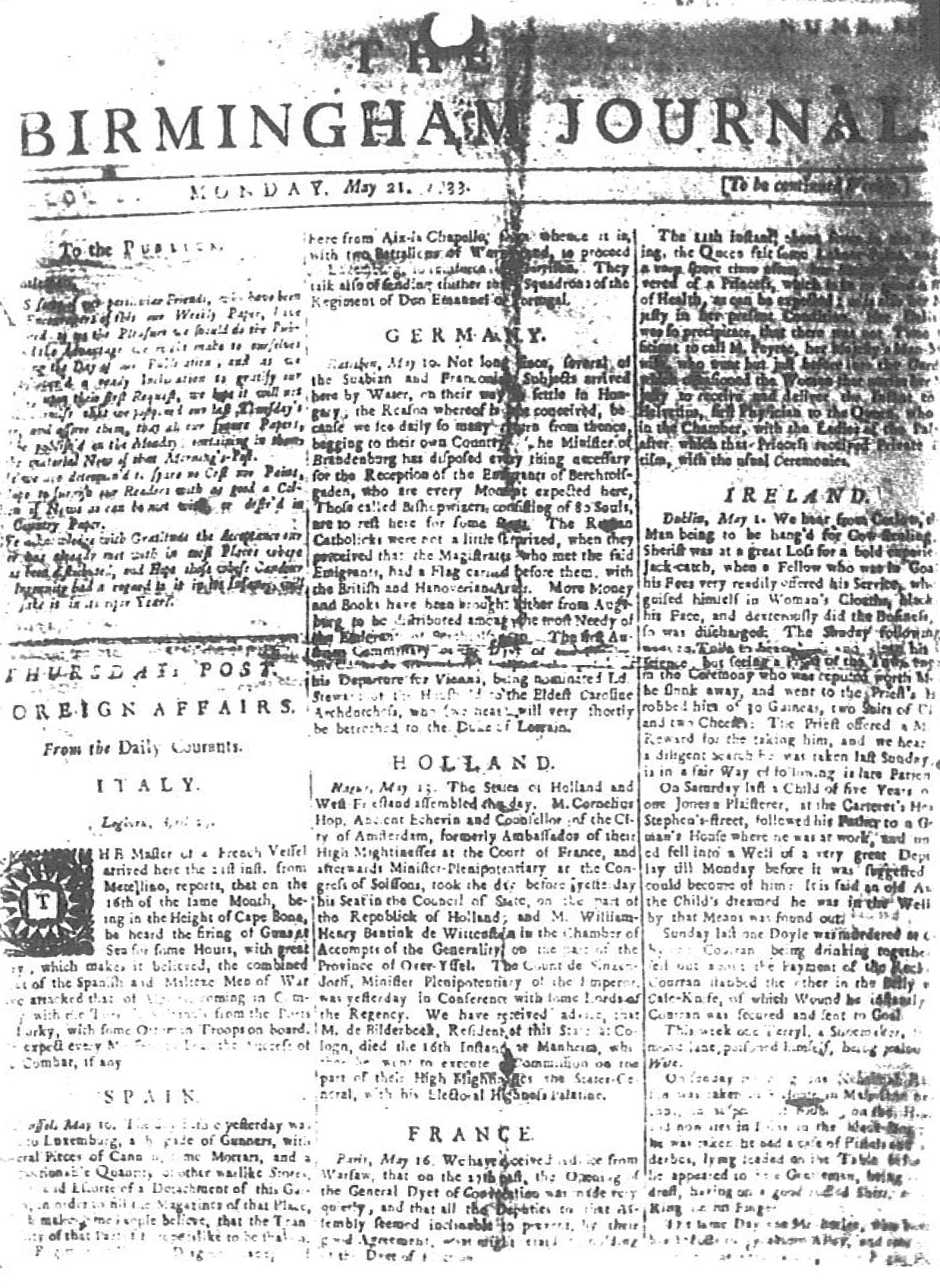 The front page of the only known surviving copy of the Birmingham Journal, the first newspaper knwon to have been published in Birmingham, England.